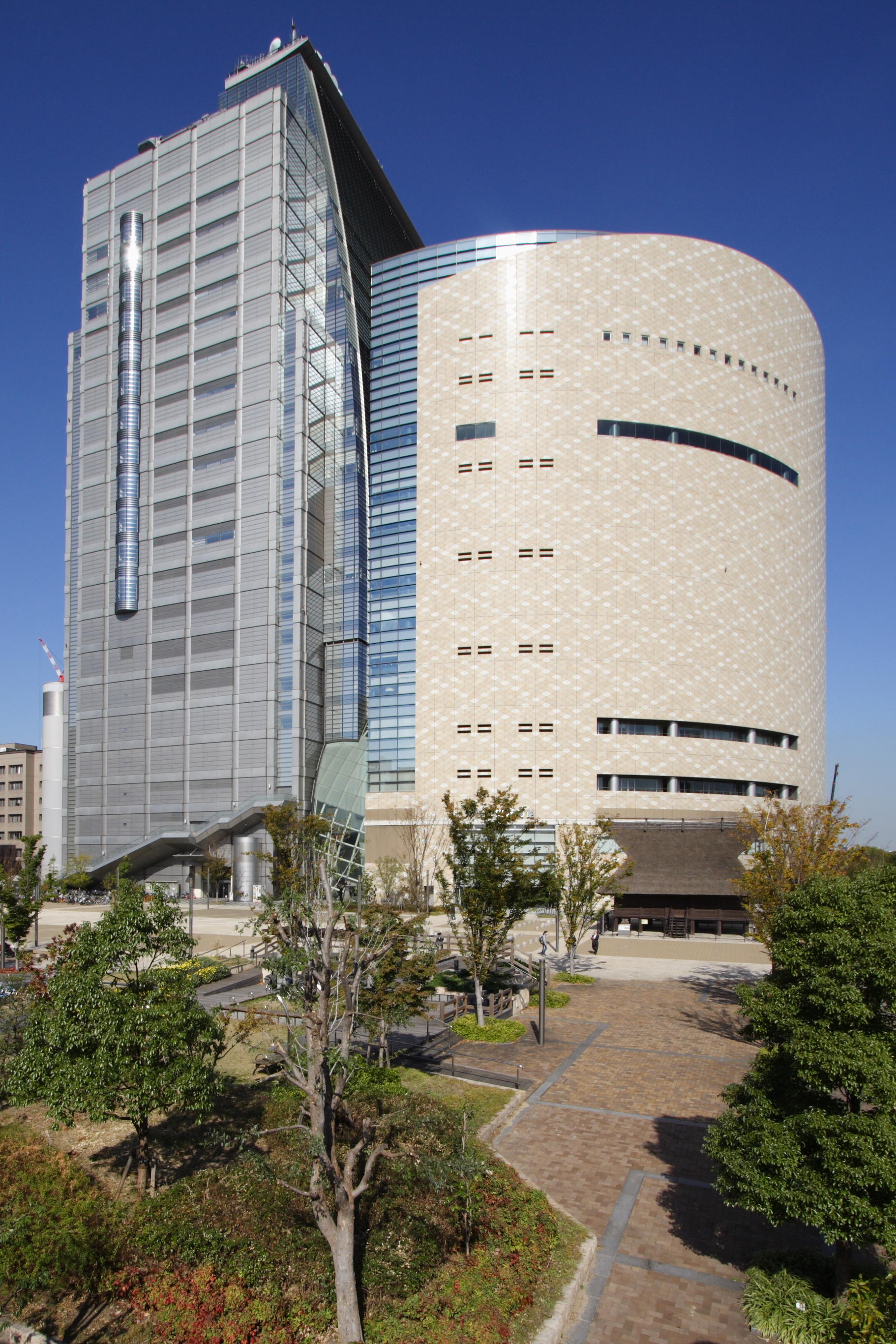 大阪歴史博物館・大阪放送会館/Osaka Museum of History and Osaka Broadcasting Station(大阪市, Japan)